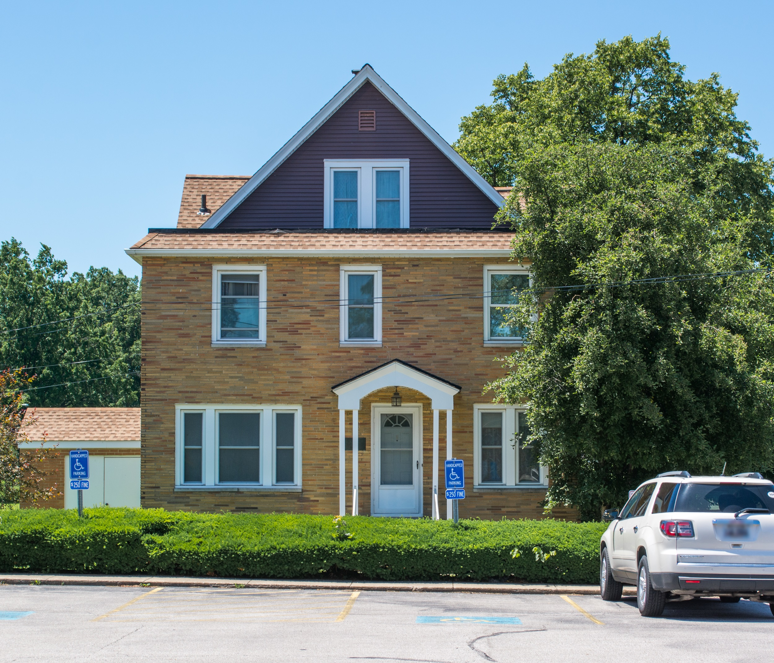 rectory - St Josaphat Ukrainian Catholic Cathedral